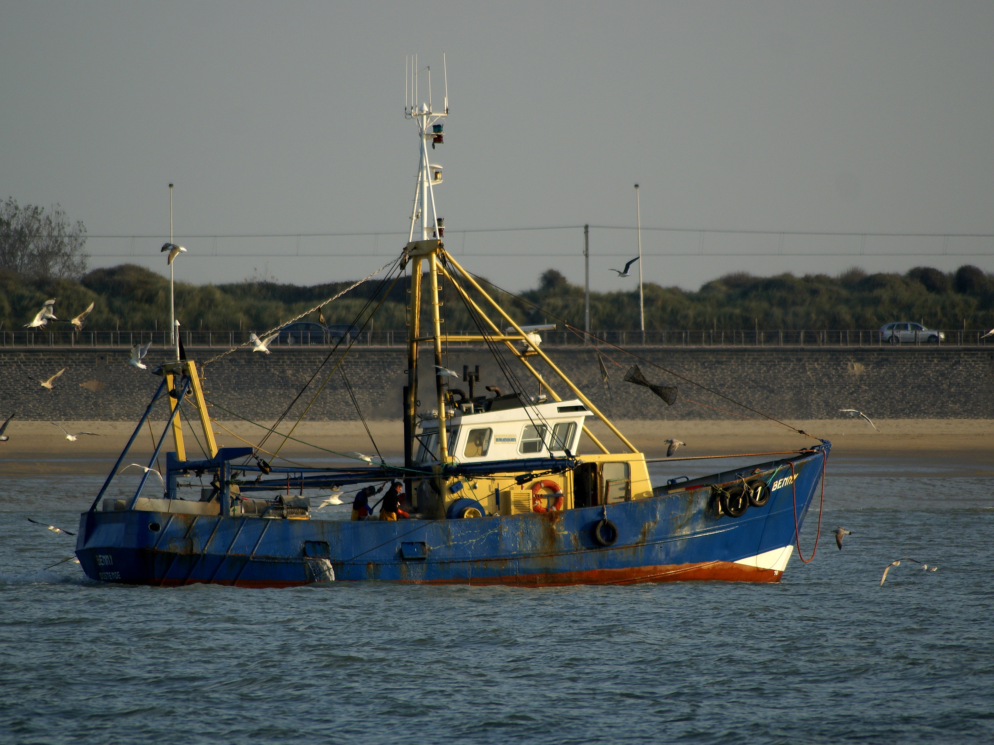 O.101 Benny. Shrimp fishing vessel, fishing close to the shore at Raversijde, Belgium.